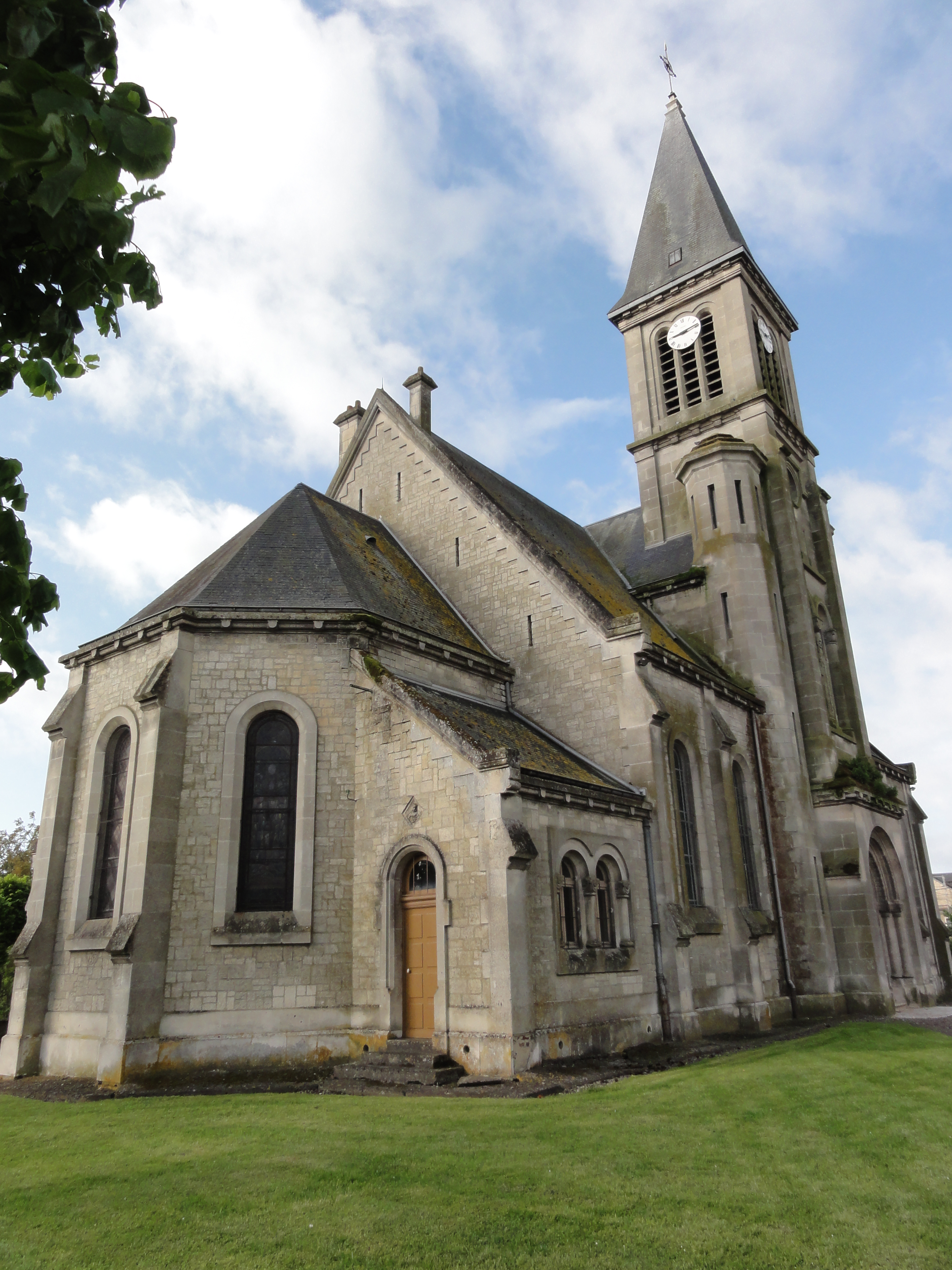 Churches in Aisne